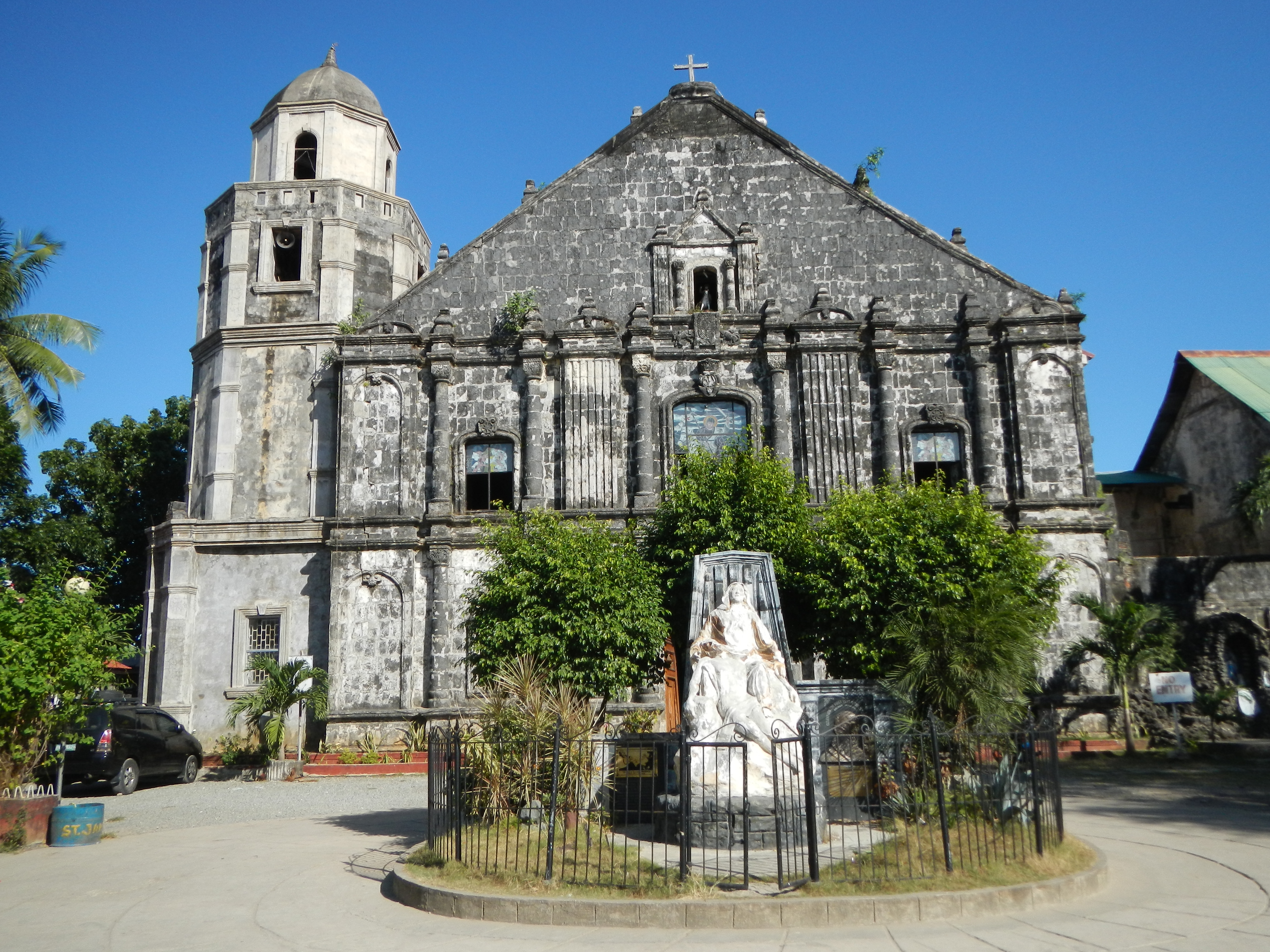 Upload Wizard photos of - Poblacion, Town Proper - Bolinao, Pangasinan [1] under the incumbency of Congressman Jesus Celeste, the brother of Vice-Mayor former 3 termer Mayor Dr. Alfonso Celeste and Congressman Arhtur F. Celeste and incumbent Mayor Arnold Celeste - downtown, centro and the - Cultural Heritage Monument of Pangasinan -- Saint James the Great Parish Church of Bolinao belongs to the - Roman Catholic Diocese of Alaminos [2] Vicariate of the Divine Savior Vicar Forane: Father Eduardo E. Inacay Bolinao F-1610 2406 Pangasinan, Philippines Titular: St. James the Great, July 25 Parish Priest: Father Jeremy M. Ofo-ob Parochial Vicar: Father Gerald F. Pangilinan - Bolinao, Pangasinan [3].